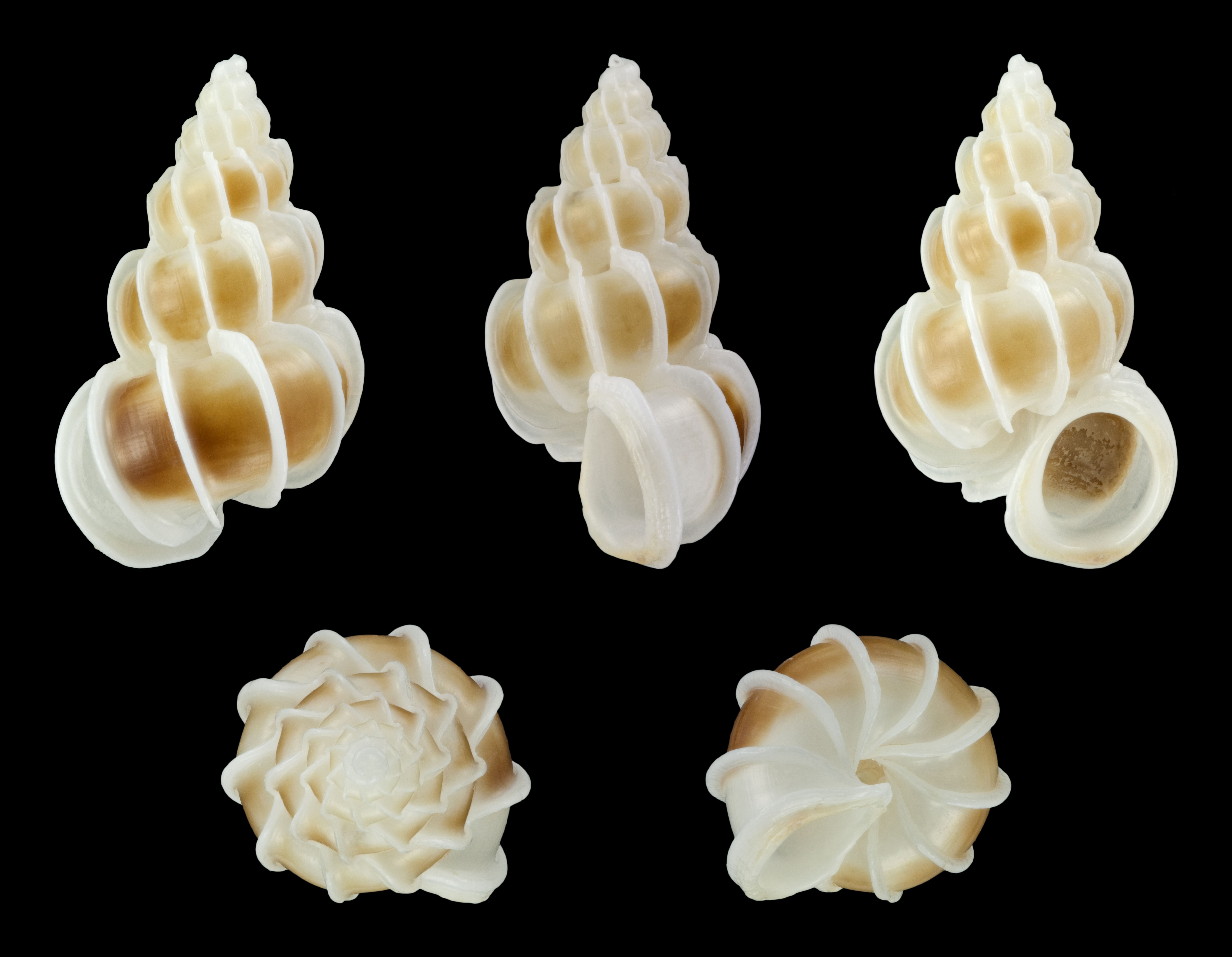 Epitonium pallasi (Kiener, 1838); Length 2.2 cm; Originating from the Indo-Pacific; Shell of own collection, therefore not geocoded.